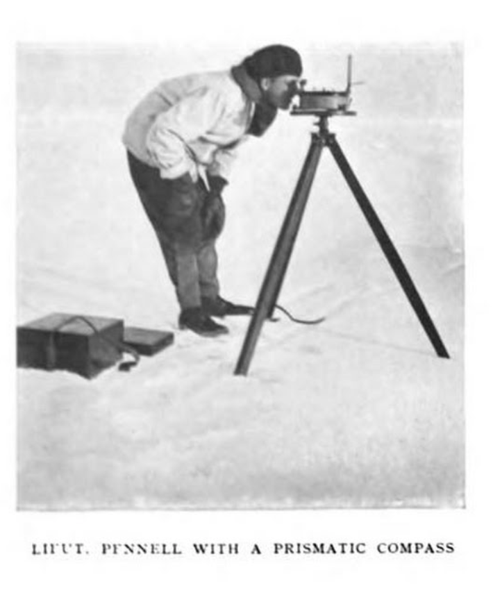 Lt Pennell with a Prismatic Compass